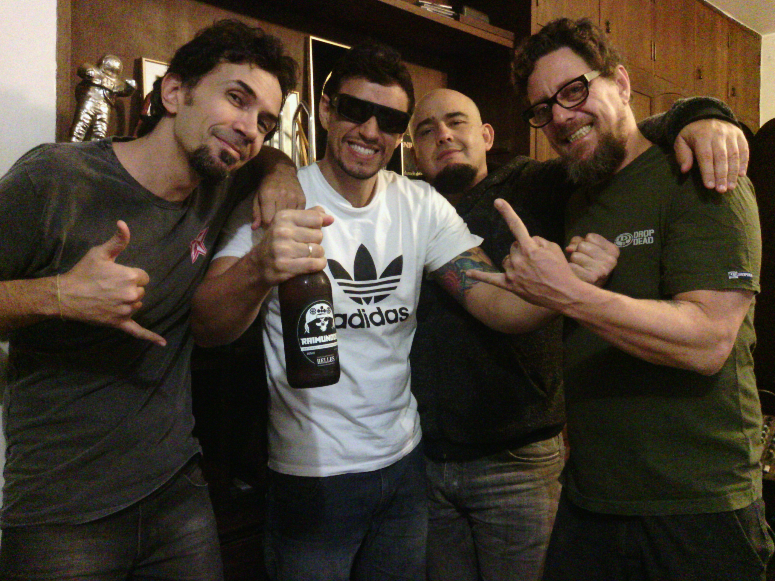 Raimundos promoting Brazilian Beer Day 2013 with their own Raimundos Helles